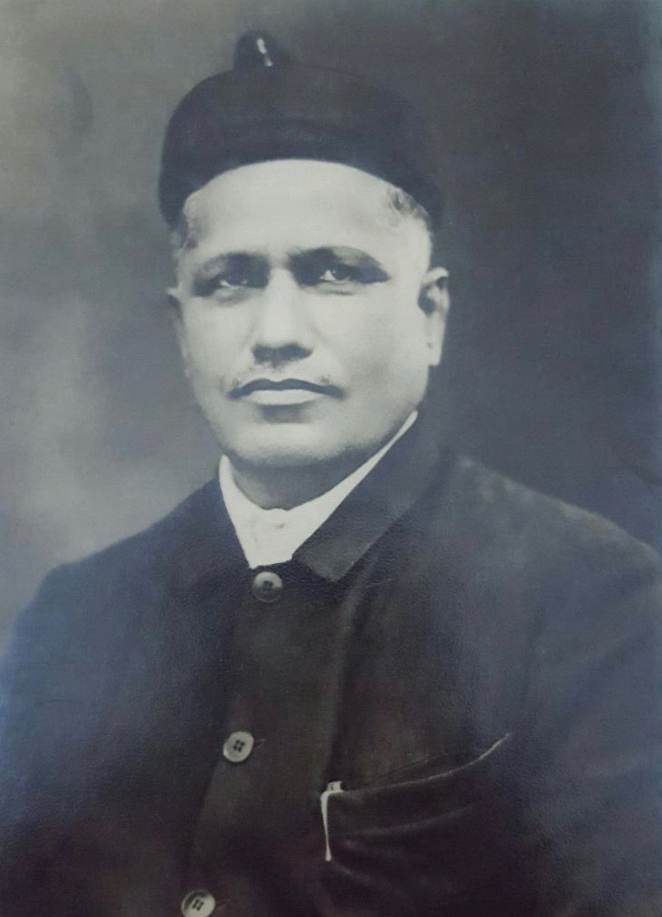 Chandrashekhar Agashe, photographed during the 1950s.